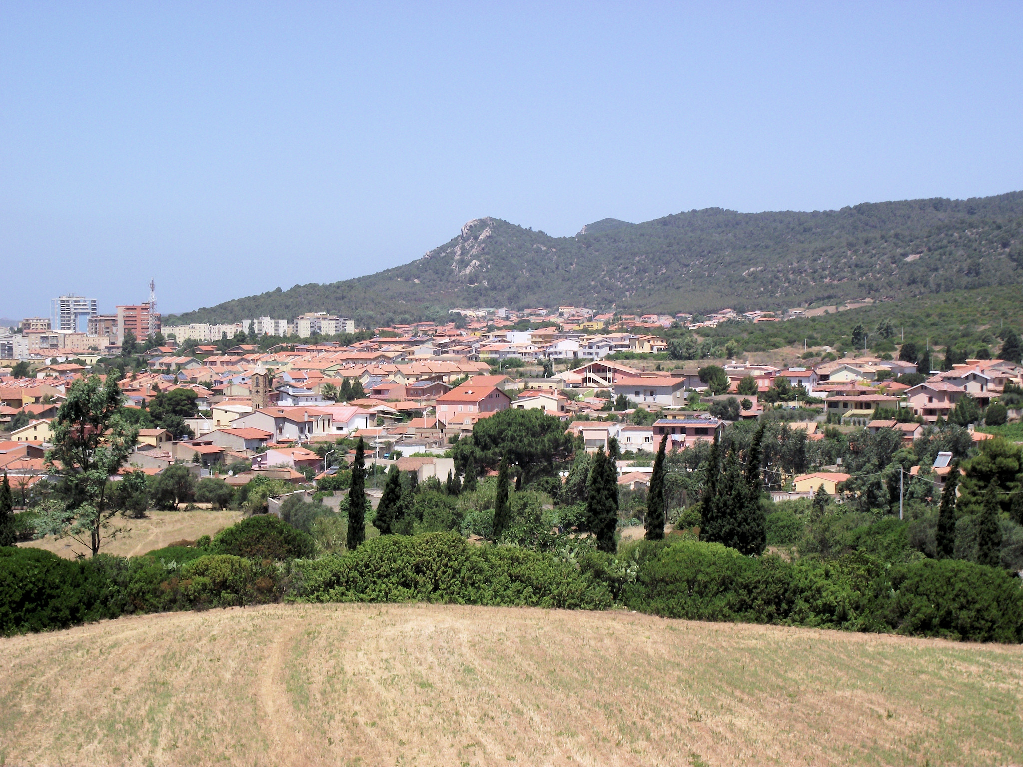 View of Serbariu, former municipality of south-west of Sardinia, now suburb of the city of Carbonia.